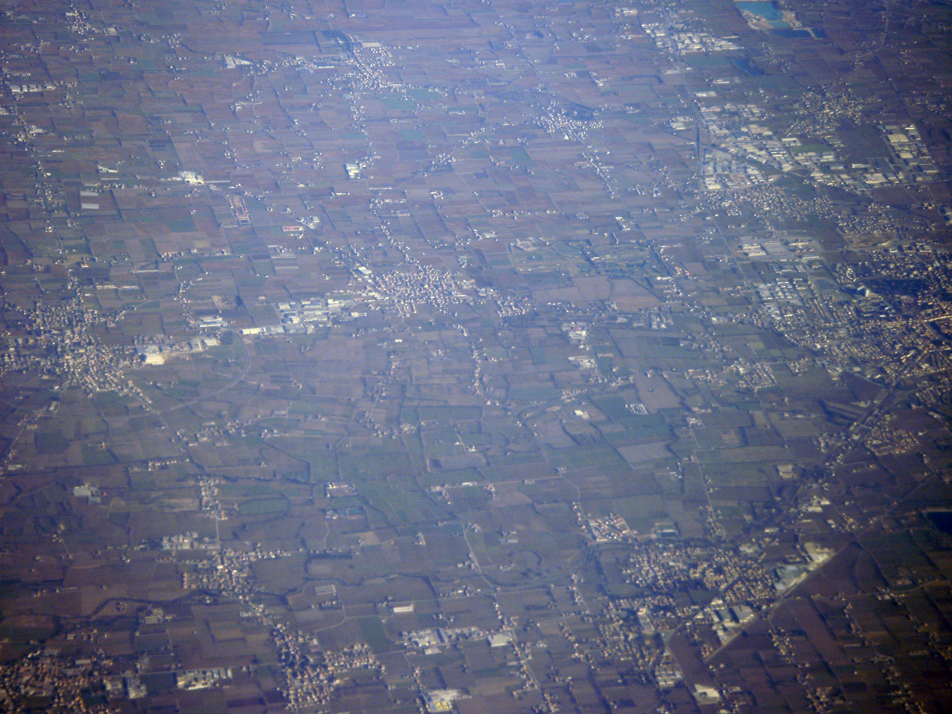 Castelfranco, Piese Pio X, Valla, Castello di Godego